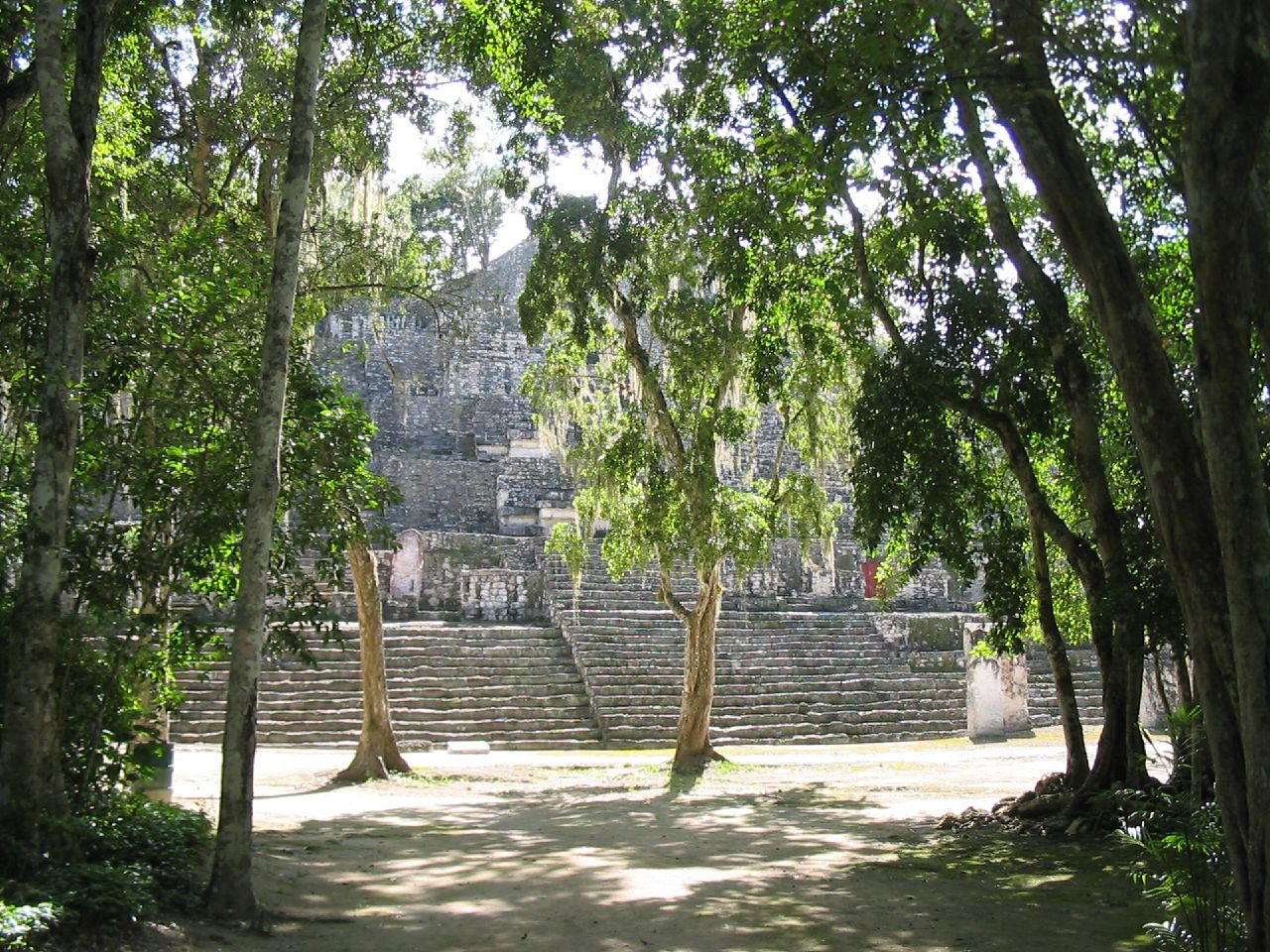 the ruins just rise up out of the jungle